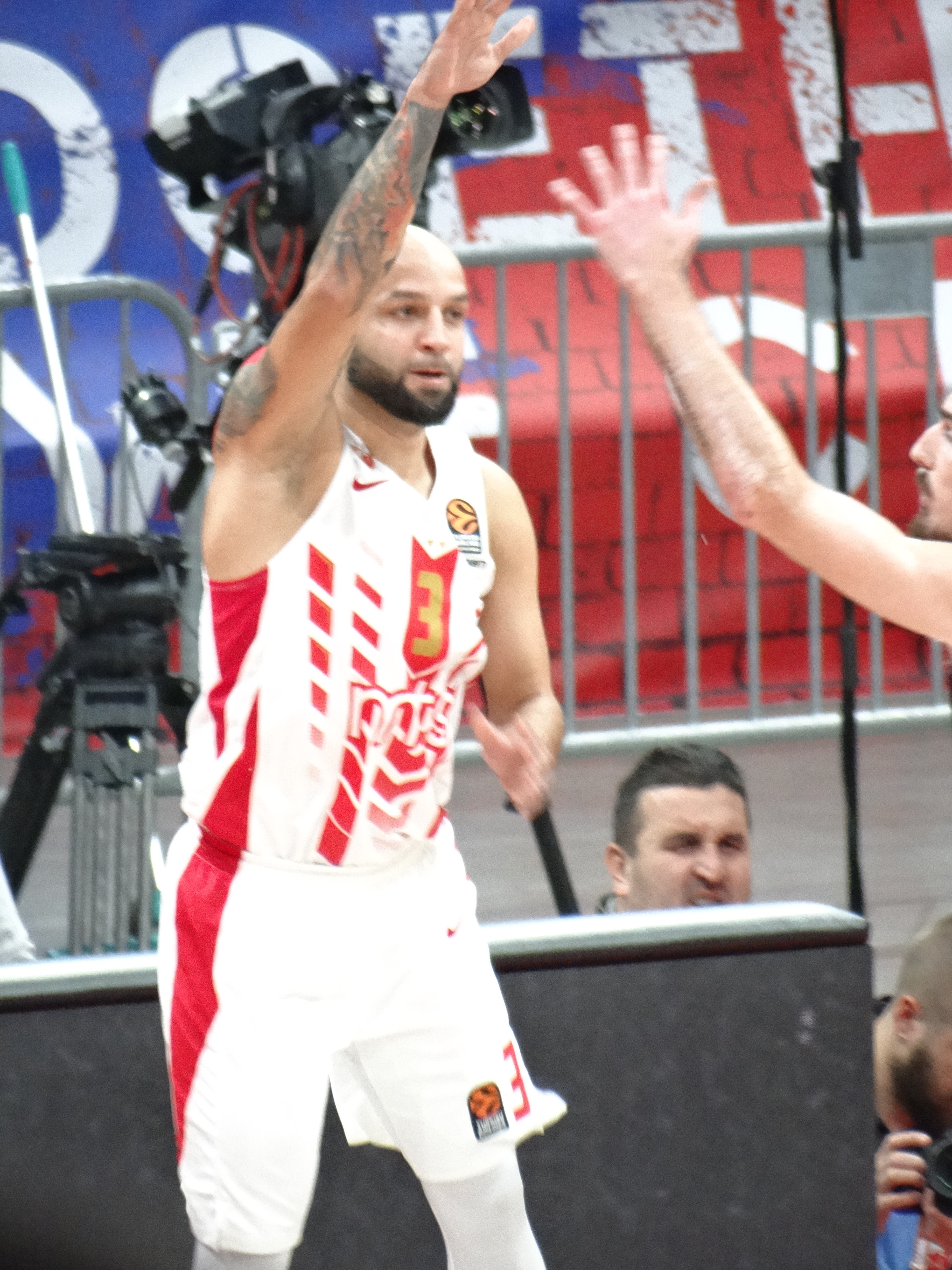 Filip Čović 3 KK Crvena zvezda EuroLeague 20191010